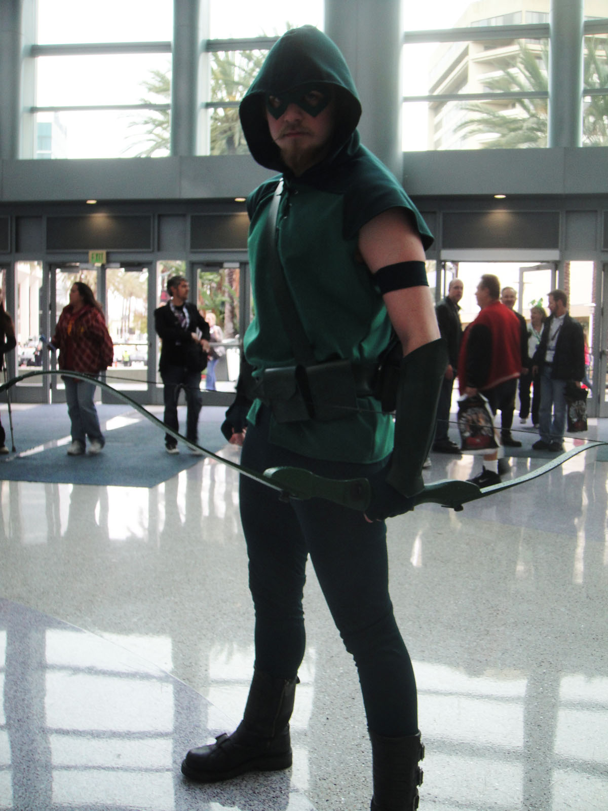 photo 2012 Pop Culture Geek taken by Doug Kline If you're interested in higher resolution versions of my images, contact me via my profile page.